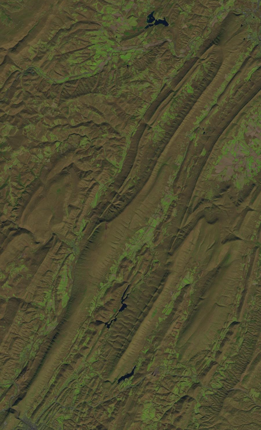 Landsat image of Wills Mountain, a ridge in Bedford County, Pennsylvania, and Allegany County, Maryland. The mountain extends from the water gap known as Cumberland Narrows in the lower left corner to Kinton Knob in the upper right corner. The valley of Milligans Cove splits the mountain into two ridges in the upper half of the image.